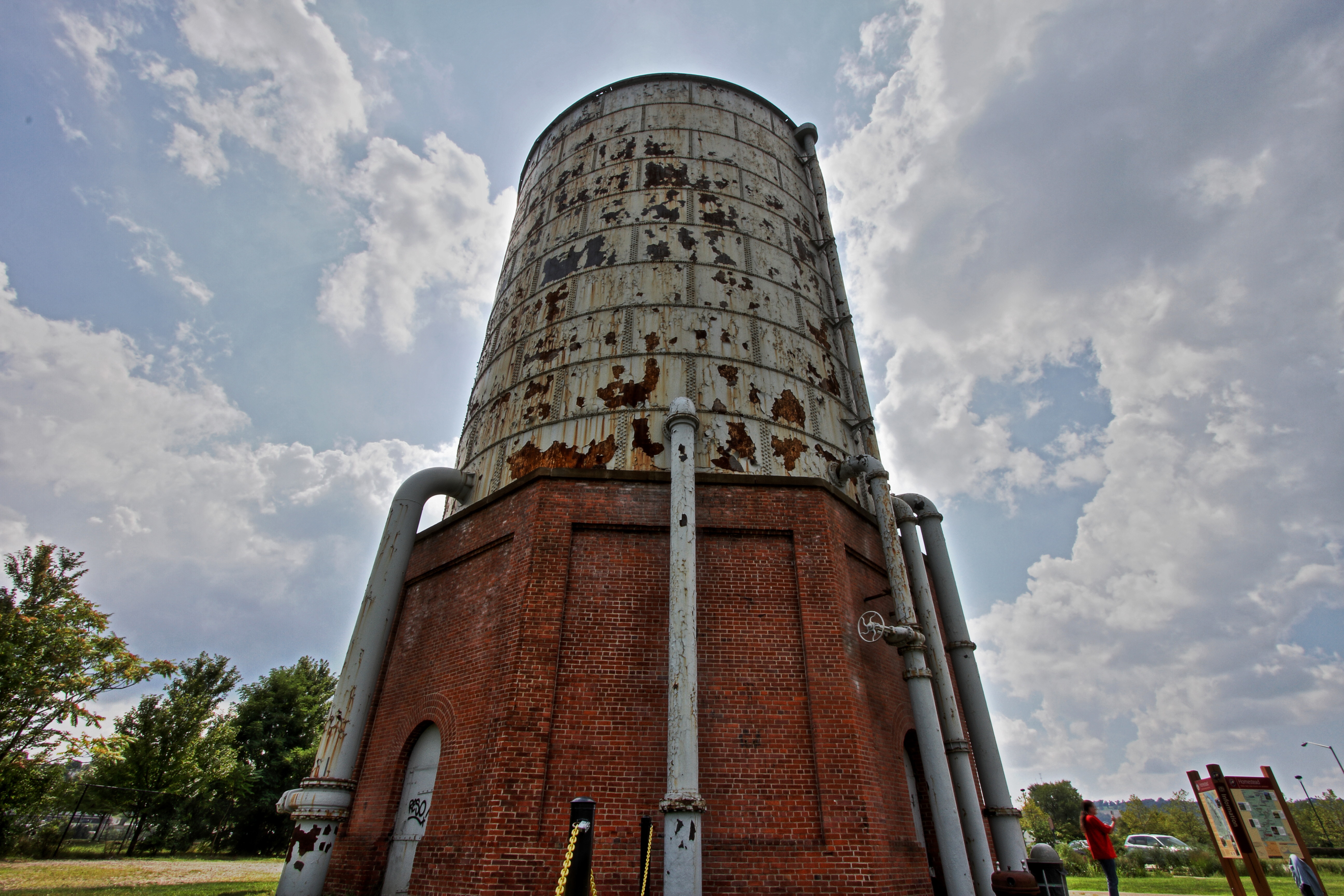 One of the few remaining structures from the steelworks, the water tower of the pump-house serves as restroom today.